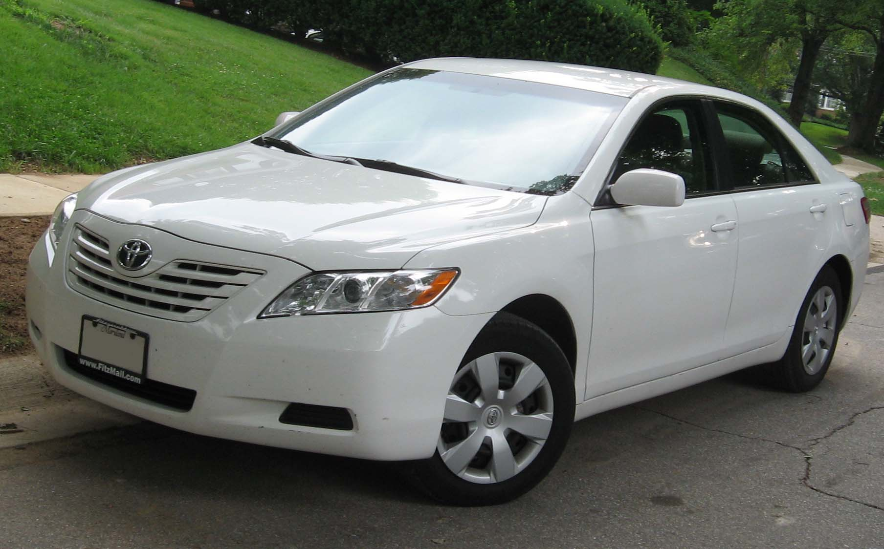 2007 Toyota Camry photographed in USA.